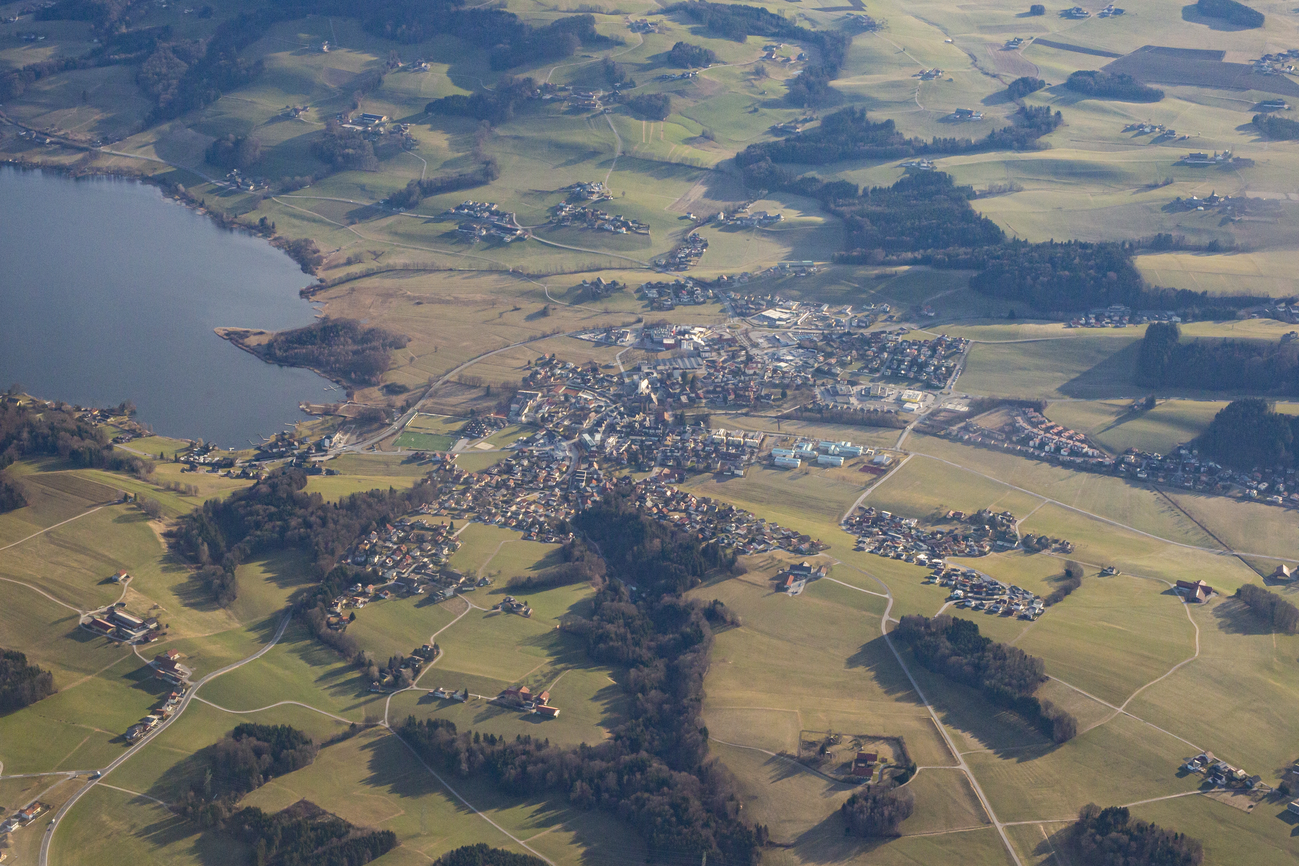 Obertrum, Salzburg, Austria